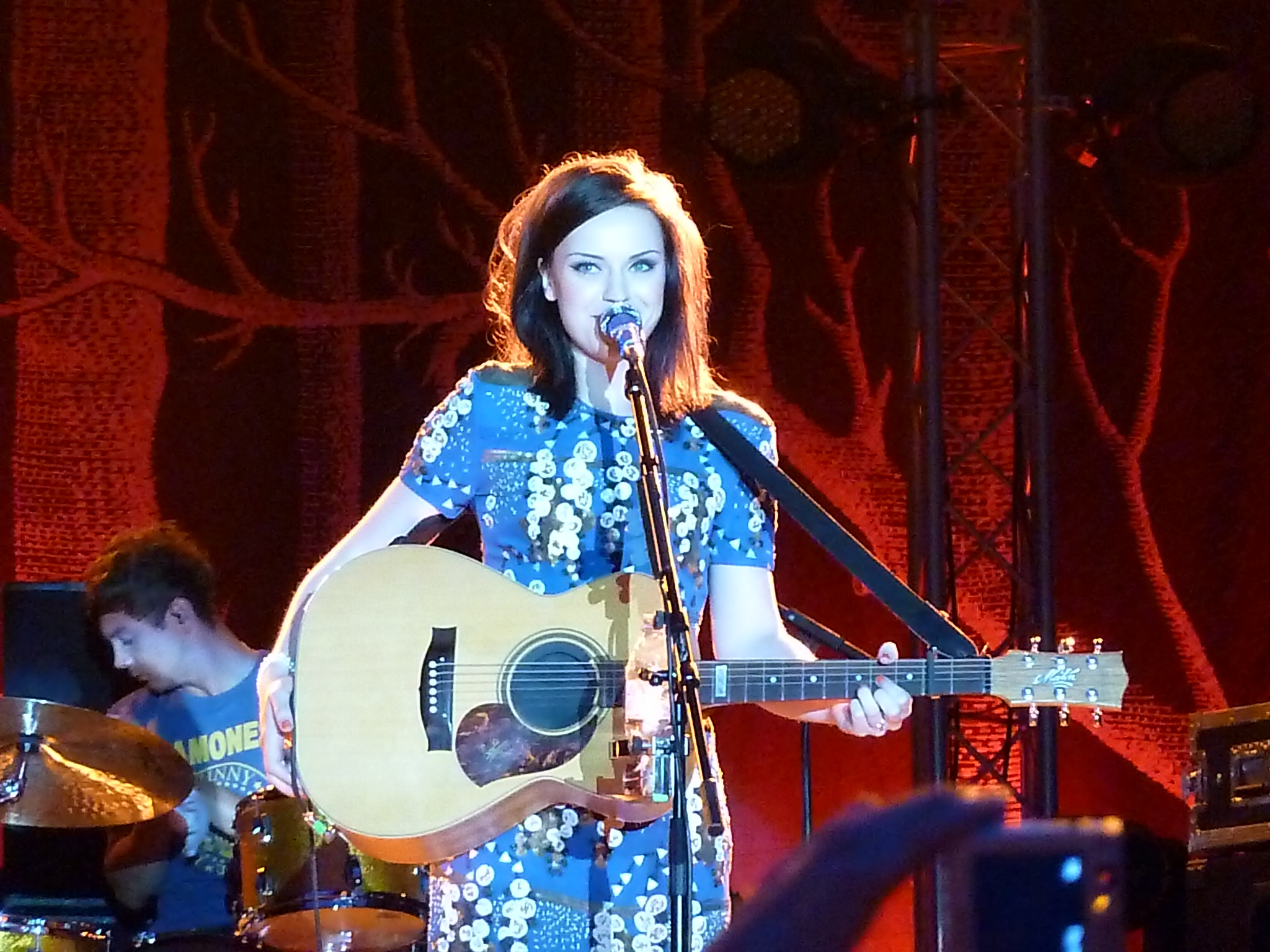 Amy MacDonald at the I EM Music in Emmendingen